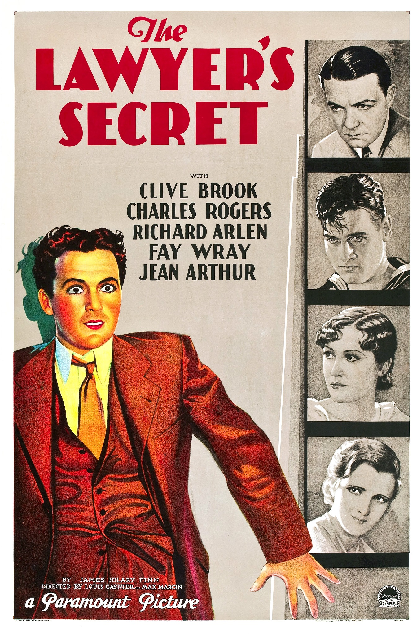 Poster for the 1931 film The Lawyer's Secret. There are no copyright marks on the poster. At bottom left is 1A-3089 Country of origin USA. At bottom right is This poster leased from Paramount Publix Corp #45060.